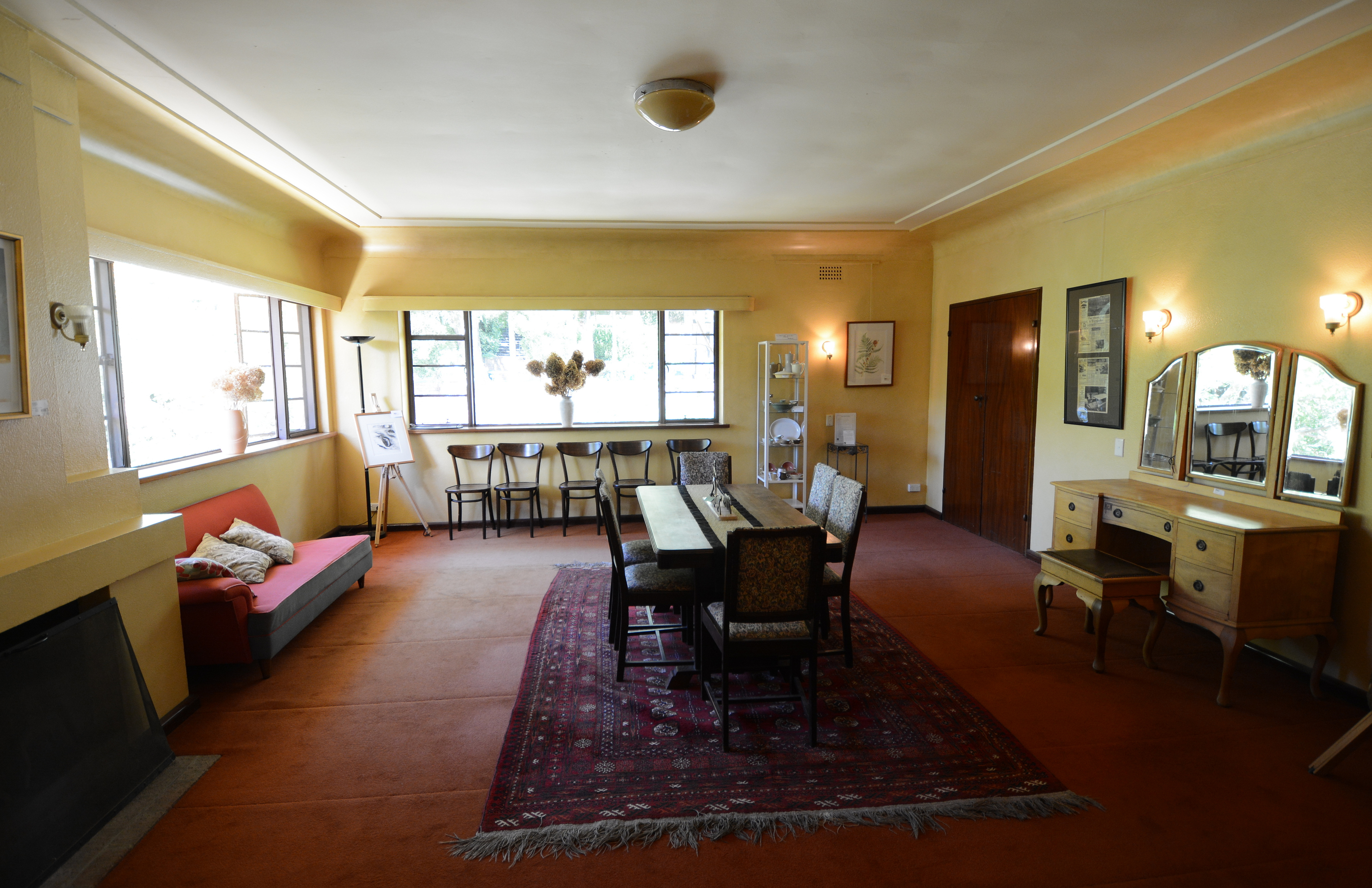 Everglades, Leura, NSW, Australia